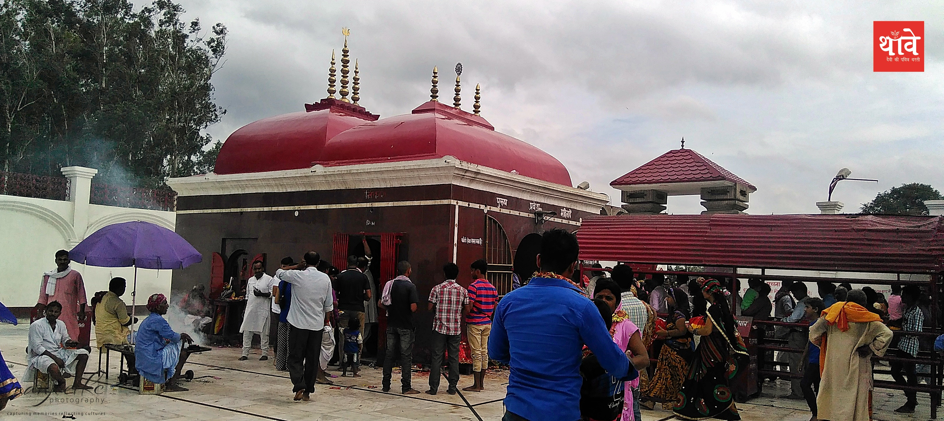 inner view of thawe mandir